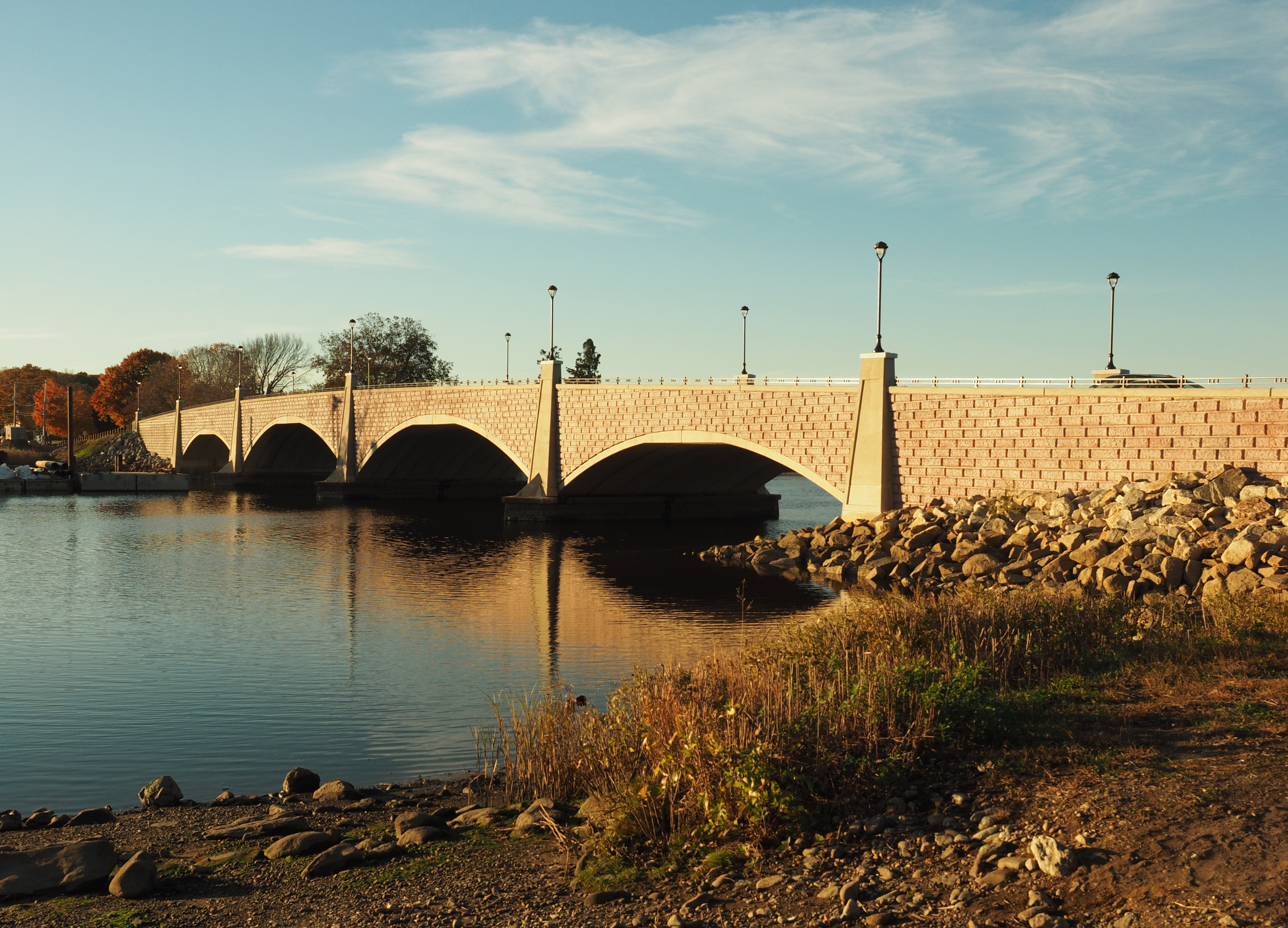 Completed in Fall 2015, this bridge spans the Taunton River in Massachusetts